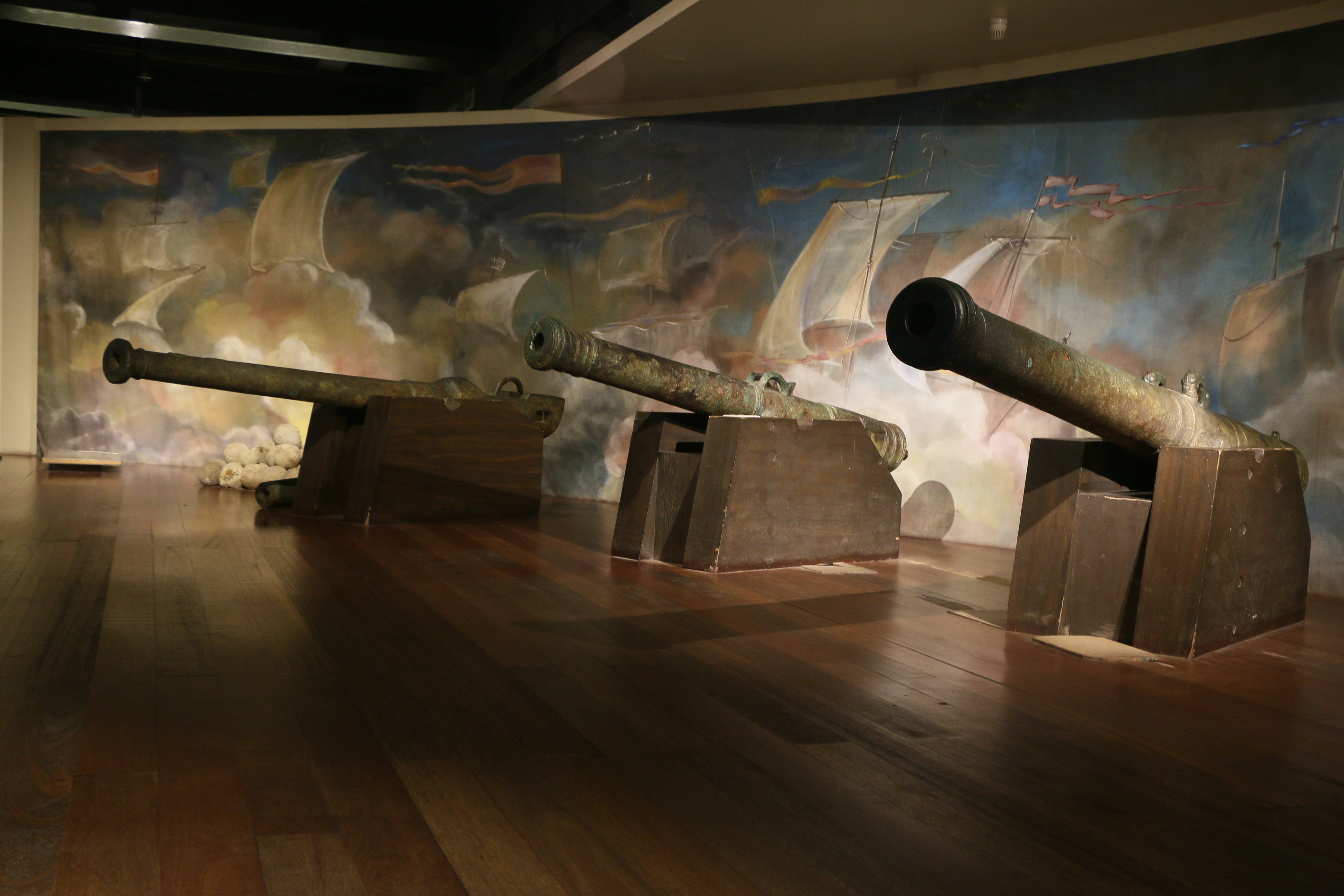 San Diego